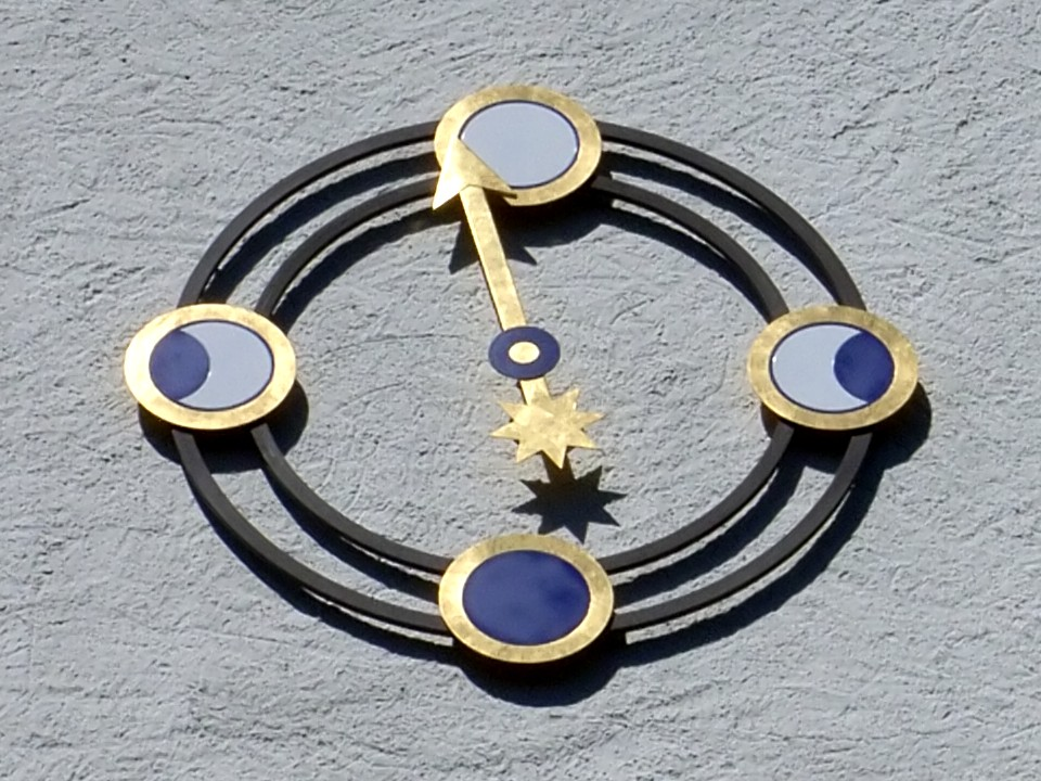 Bielefeld, North Rhine-Westphalia, Germany: "Moon clock" at the tower of the catholic Church of Our Lady.